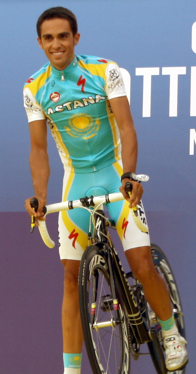 Alberto Contador at the team presentation of the 2010 Tour de France in Rotterdam